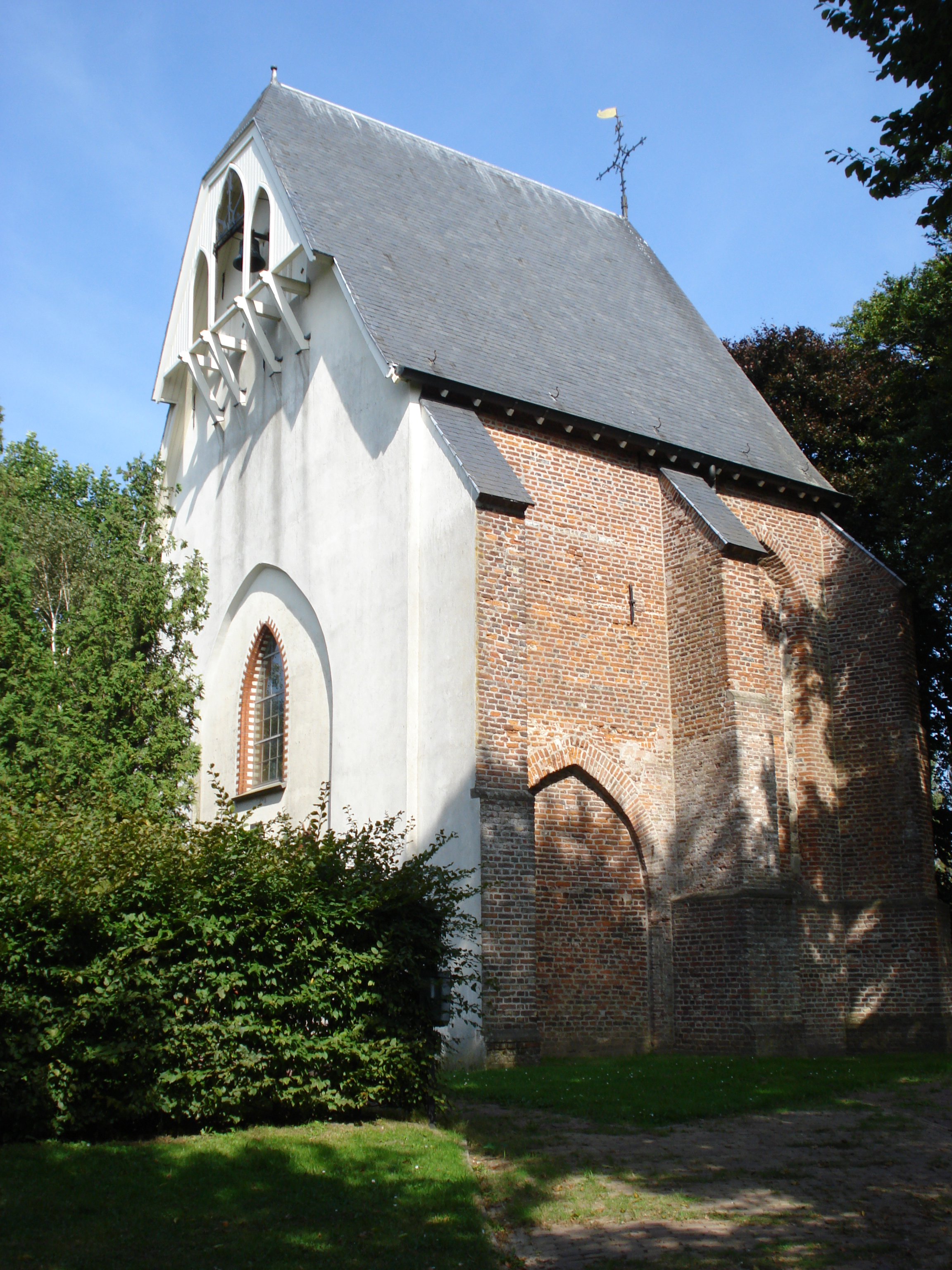 Overasselt (Gld), remains of protestant church.JPG